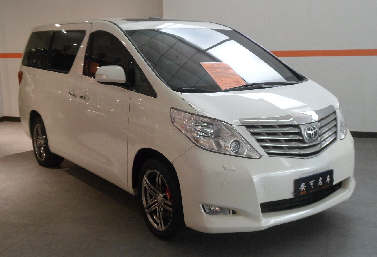 Toyota Alphard AH20 photographed in Shanghai, China.